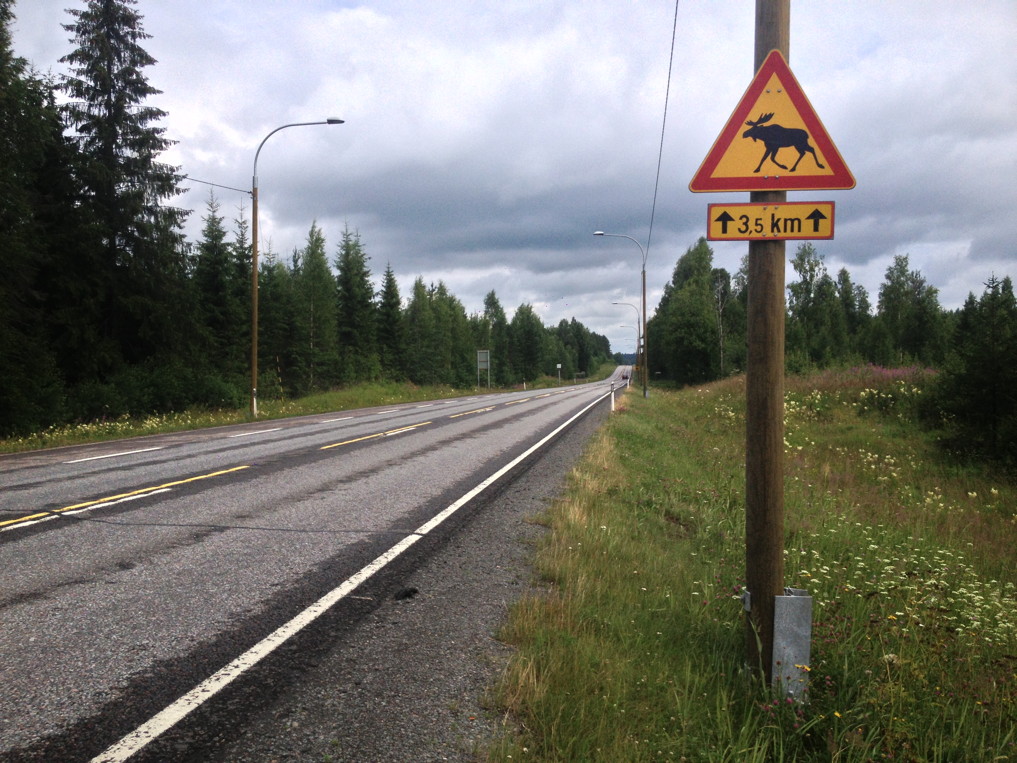 A road sign warning about mooses on the Main road 5 in Joroinen, Finland.